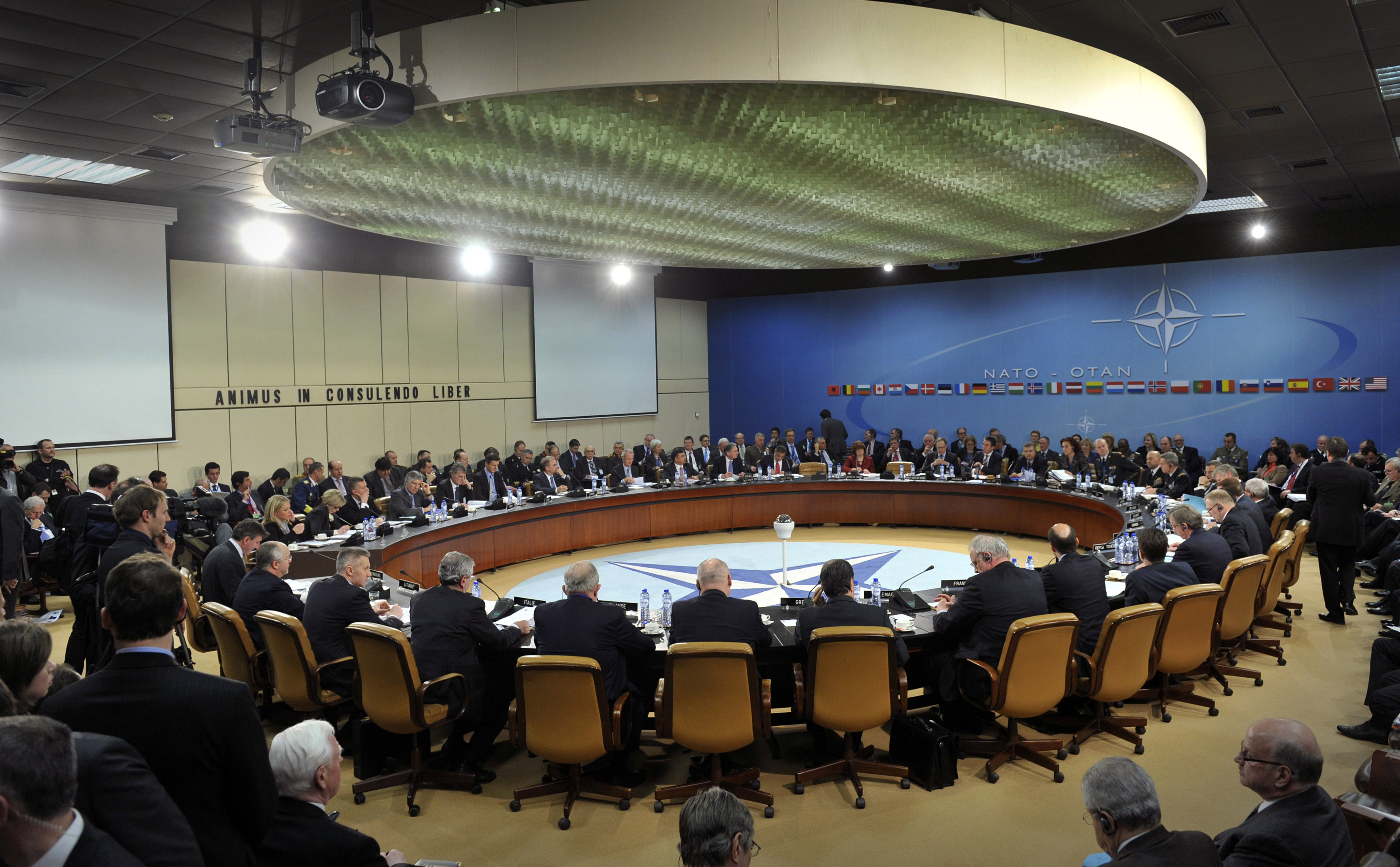 The meeting of the NATO Ministers of Defense is convened in Room 1 at NATO Headquarters in Brussels, Belgium, on Feb. 21, 2013. Secretary of Defense Leon E. Panetta is in Brussels to meet with his NATO counterparts. The current International Security Assistance Force mission and the follow-on NATO mission in Afghanistan are the central topic of group meetings and Panetta’s own one-on-one discussions with allied and partner ministers here this week.